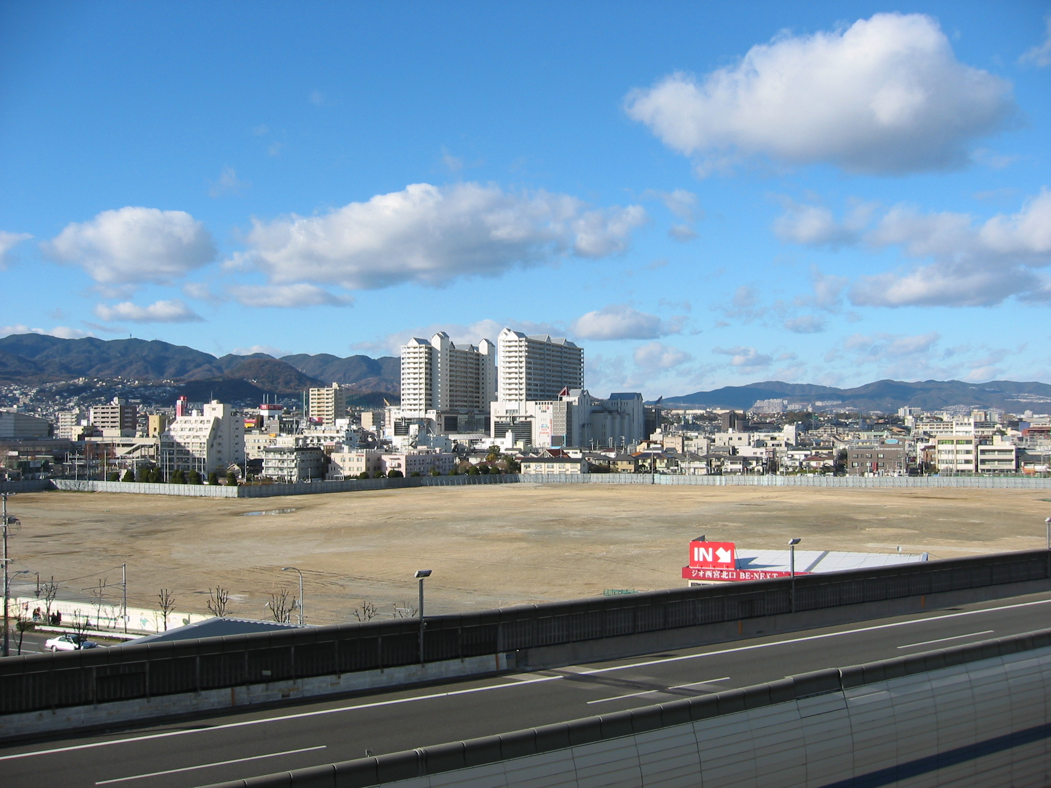 阪急西宮スタジアム解体後の更地状態のときのもの。撮影当時は分譲マンションのモデルルームが設けられていた。手前は名神高速道路。